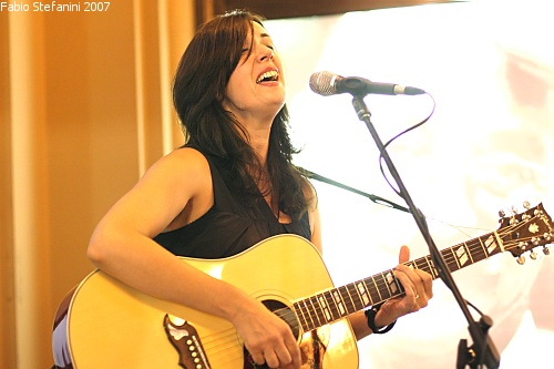 Cristina Donà showcase at Feltrinelli Gallery in Bologna. Presenting the album "La quinta stagione". September 17 2007